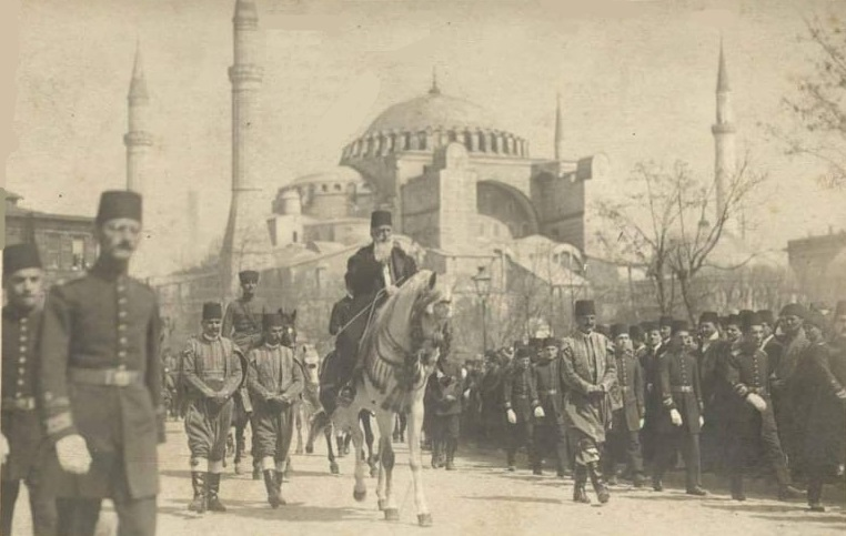 Ottoman Caliph Abdülmecid on his rout to be enthroned.